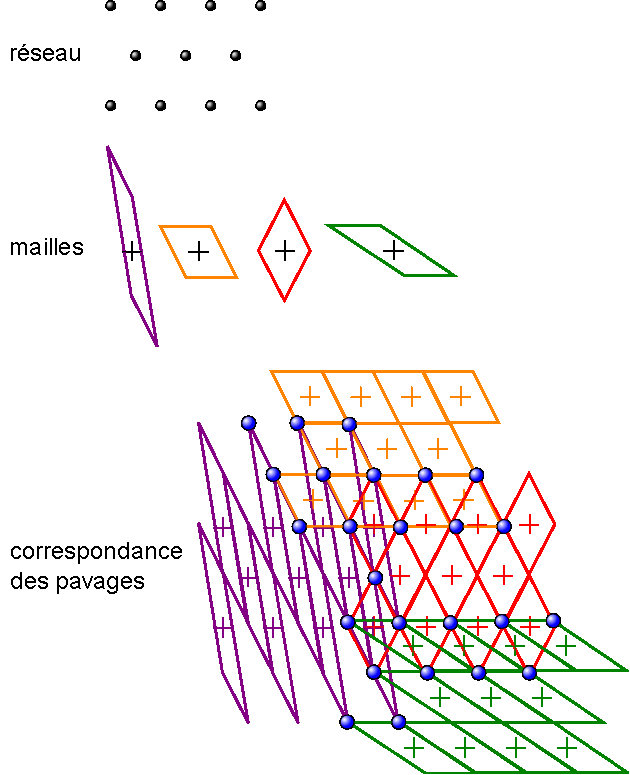 Example of different cells in a 2D lattice (modified from another file containing a mistake)